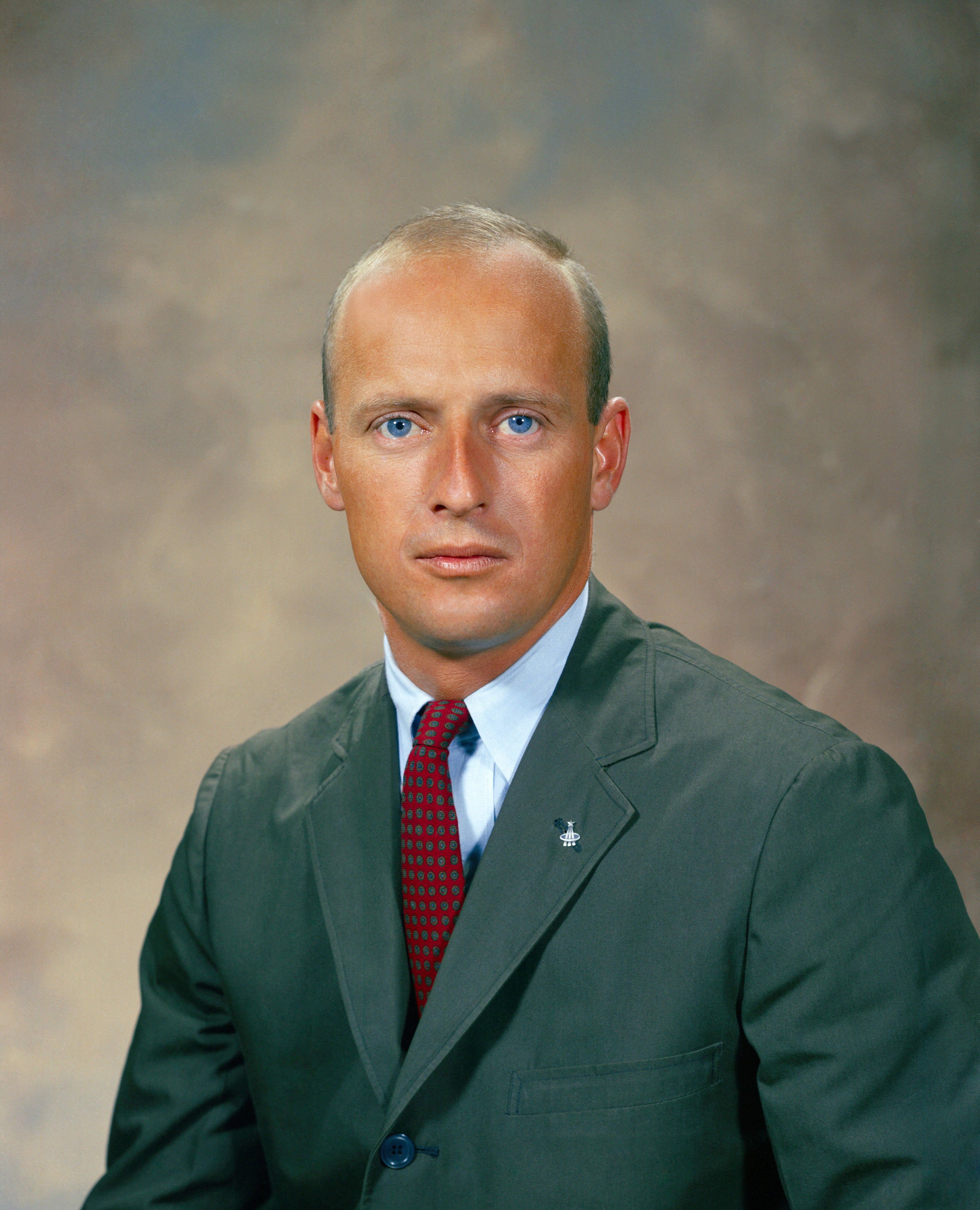 Portrait of astronaut Charles Conrad Jr..